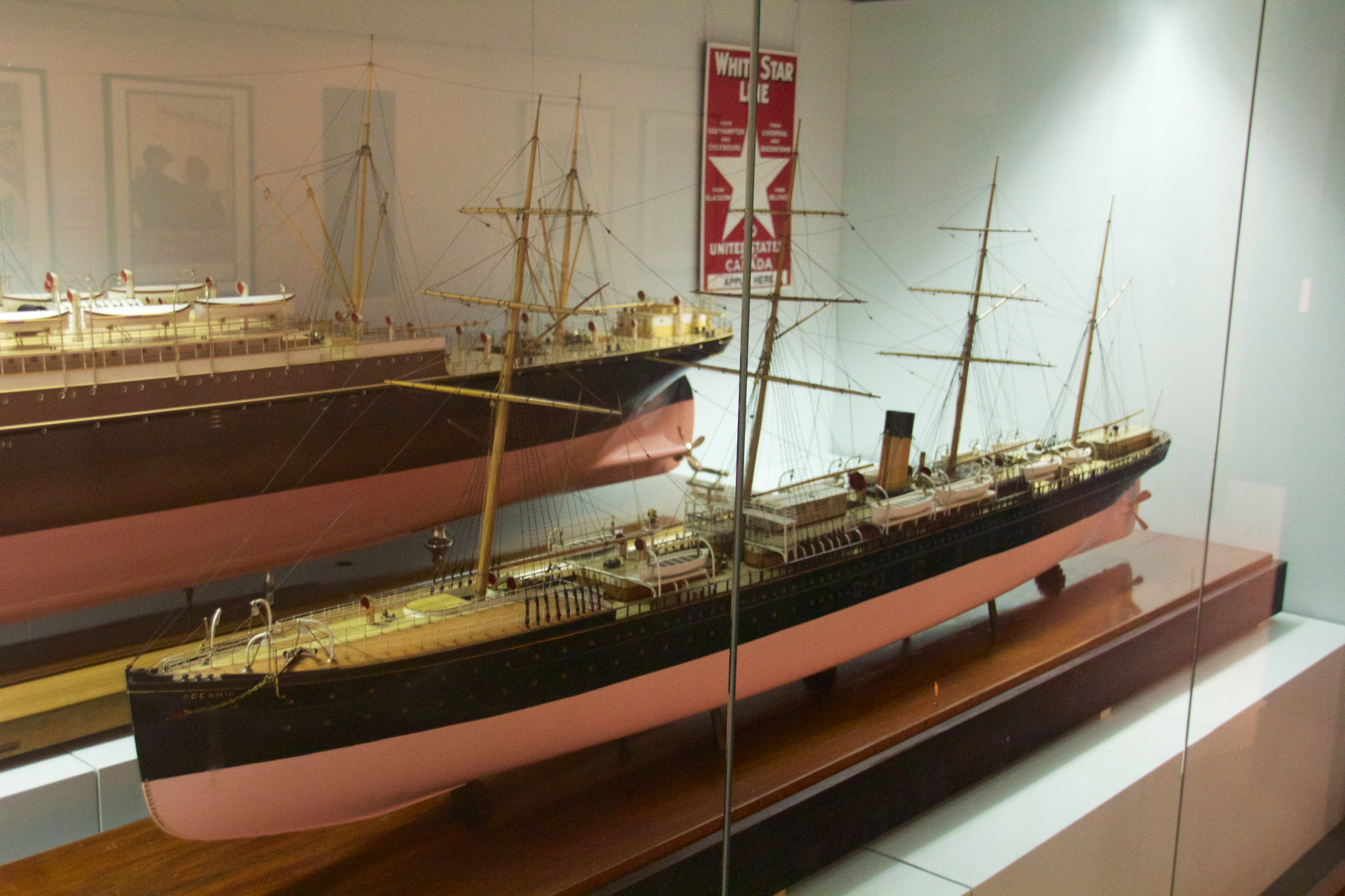 Oceanic (I), 1871. Full builders model showing the ship as altered in 1872, donated by the White Star Line in 1934.